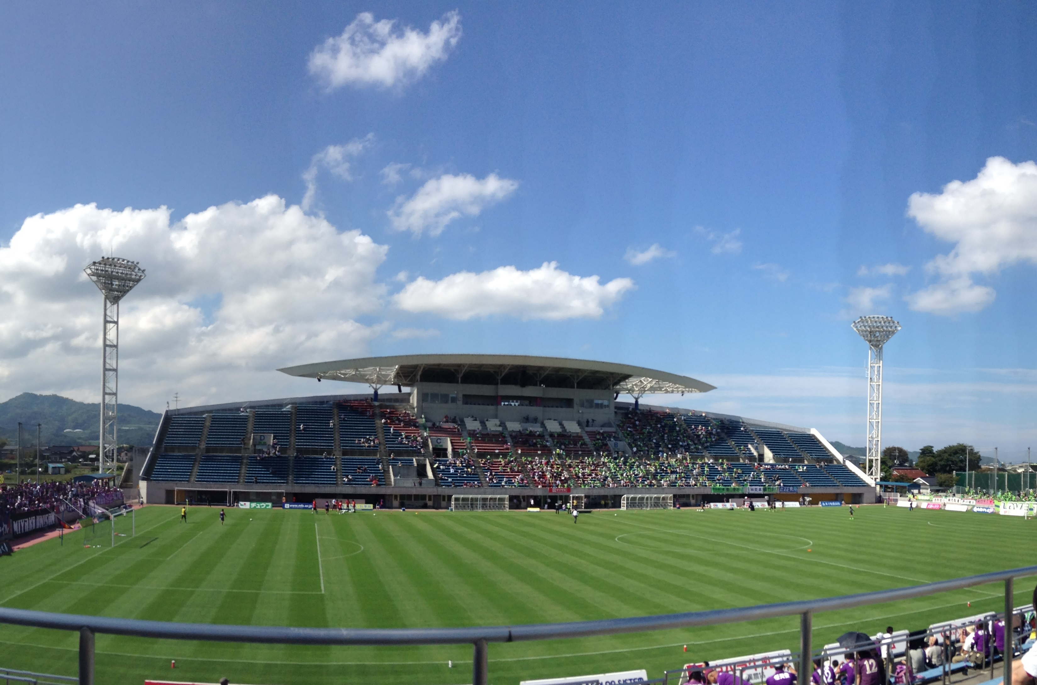 Main stand of Tottori Bird Stadium (a.k.a Tottori Bank Bird Stadium). J. League Division 2 ,Gainare Tottori vs Kyoto Sanga F.C., 6 October, 2013